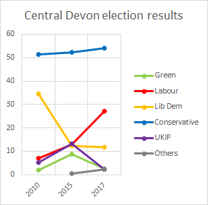 Central Devon election results